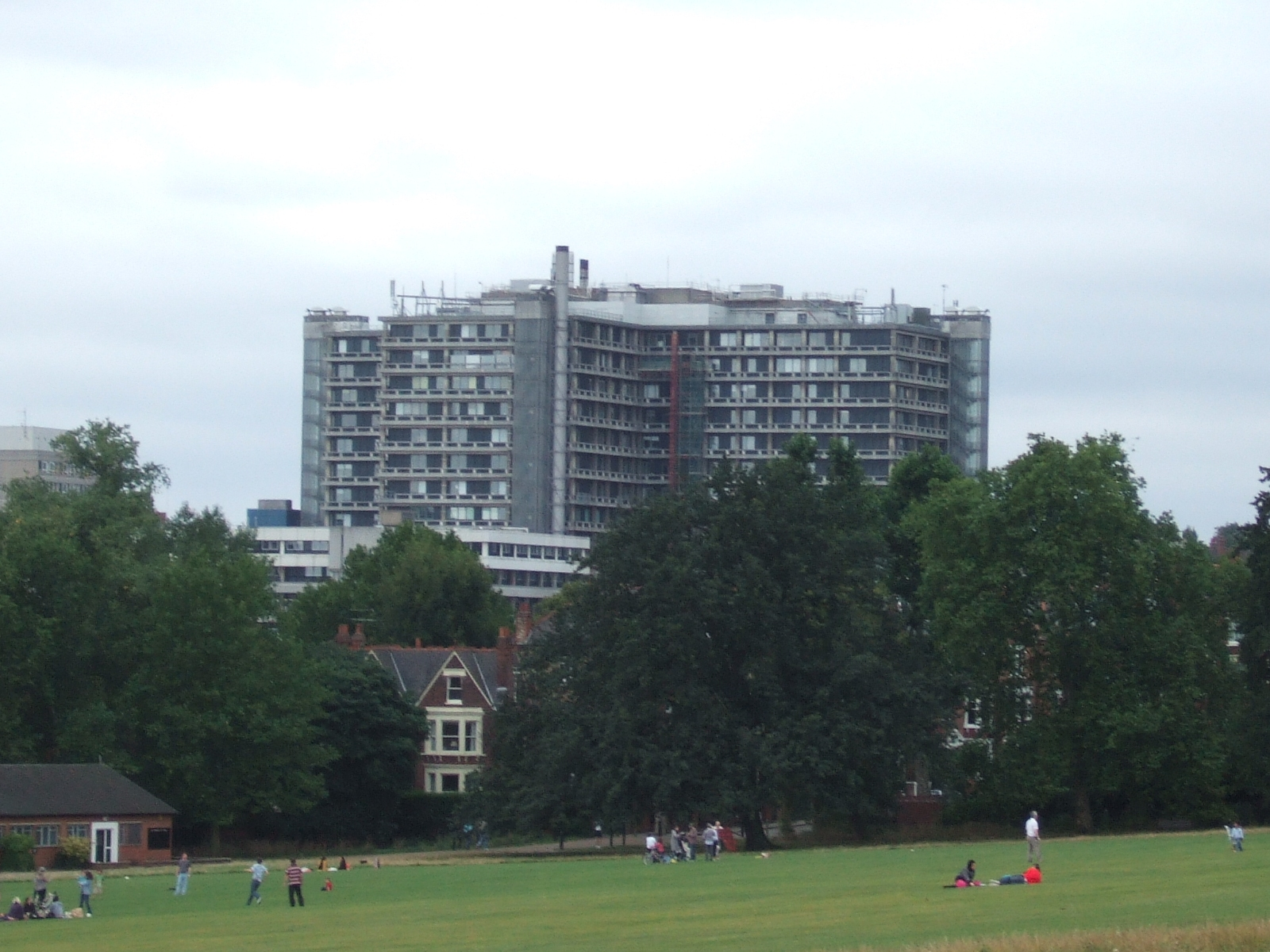 Royal Free Hospital from Parliament Hill